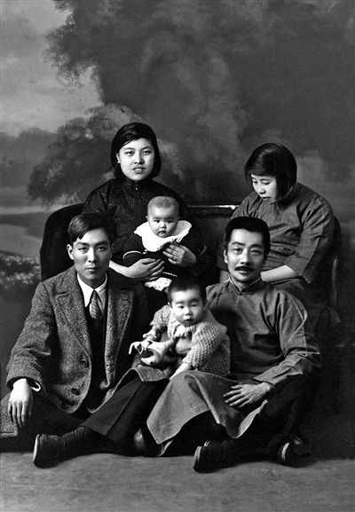 The Fengs and the Lu-s, photographed in Shanghai on April 20, 1931. For the Feng Xuefeng (Traditional